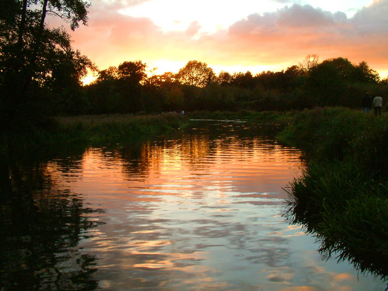 The Godalming Navigation near Godalming Photograph by Stephen Dawson, 26 October 2003